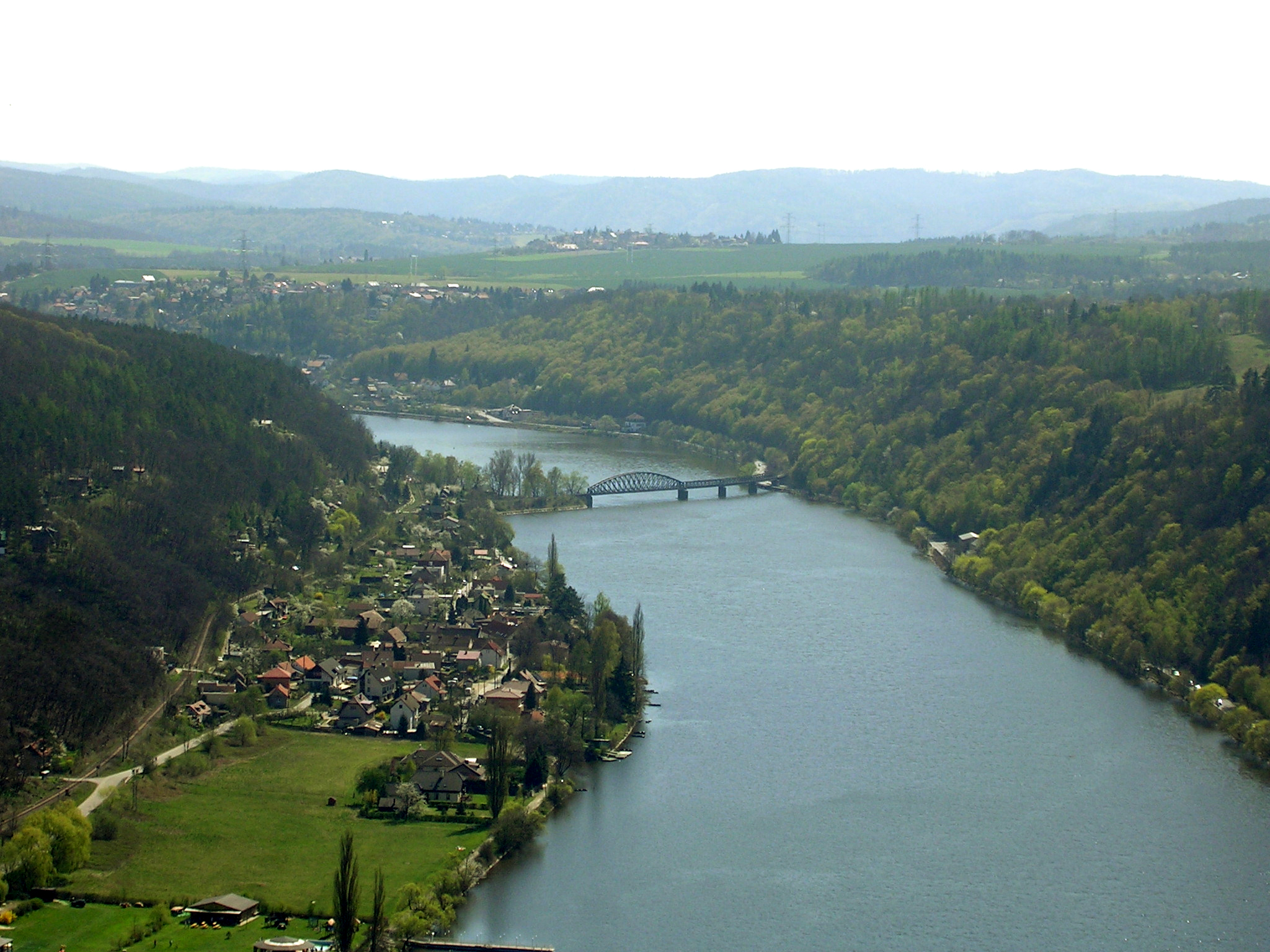 Skochovice, the Czech Republic